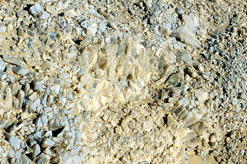 Detail of the Crystal Mountain, Libyan desert, Egypt